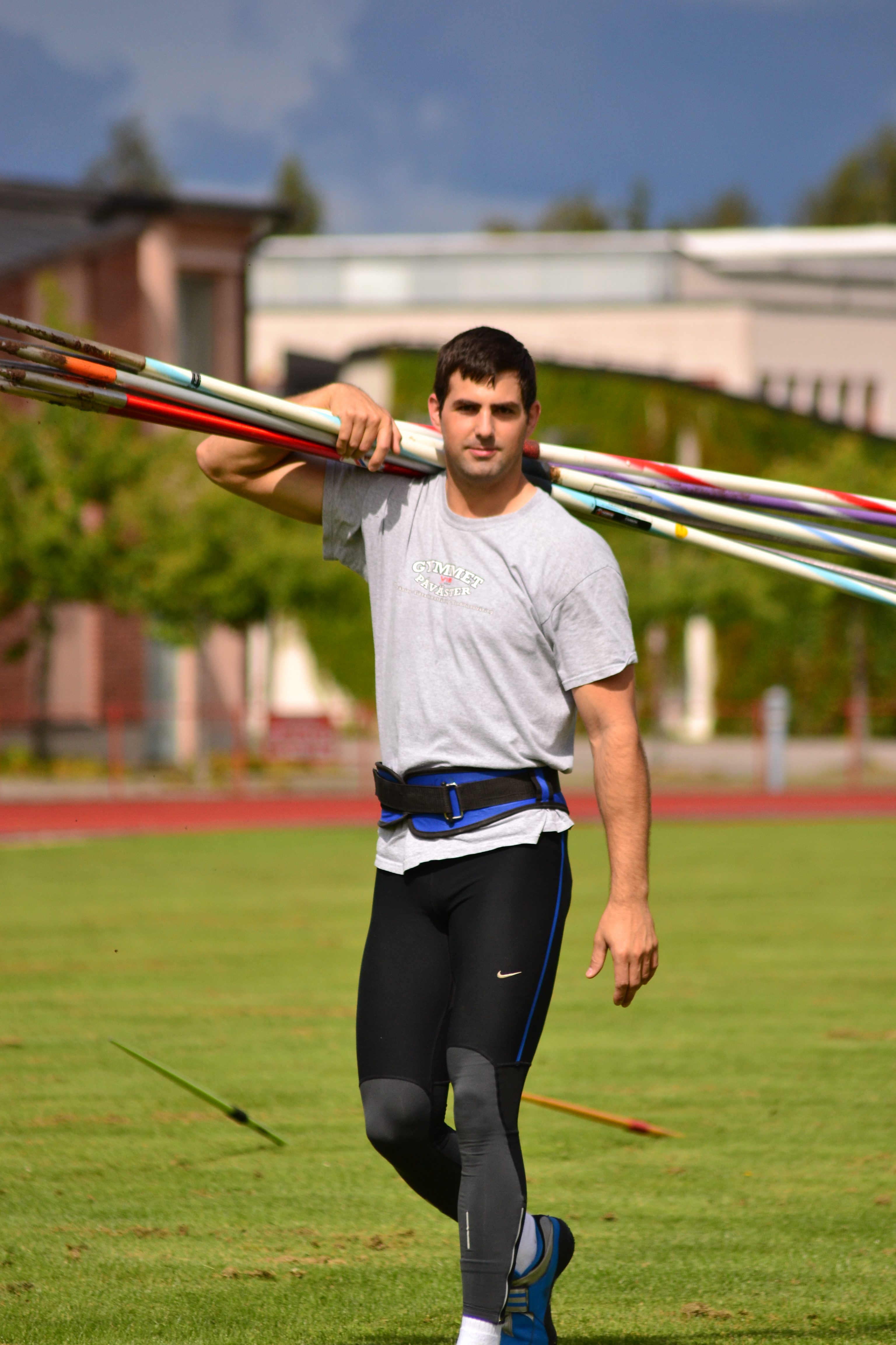 Javelin thrower Jiannis Smalios competing in the men's Javelin throw.